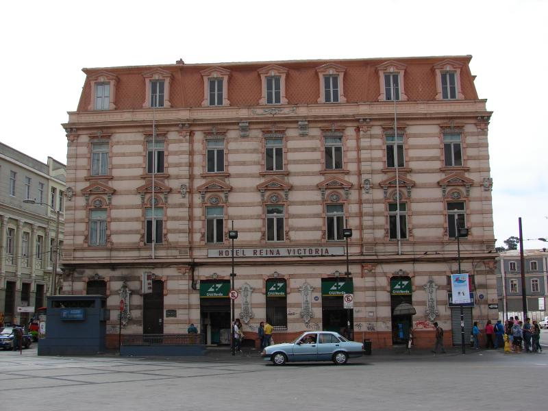 next stop on our travel through Chile. Valparaiso.. not my cup of tea really. Pretty rotten and torn down. Reminds me a bit of Lisbon in the late 90ies. Not very safe either.